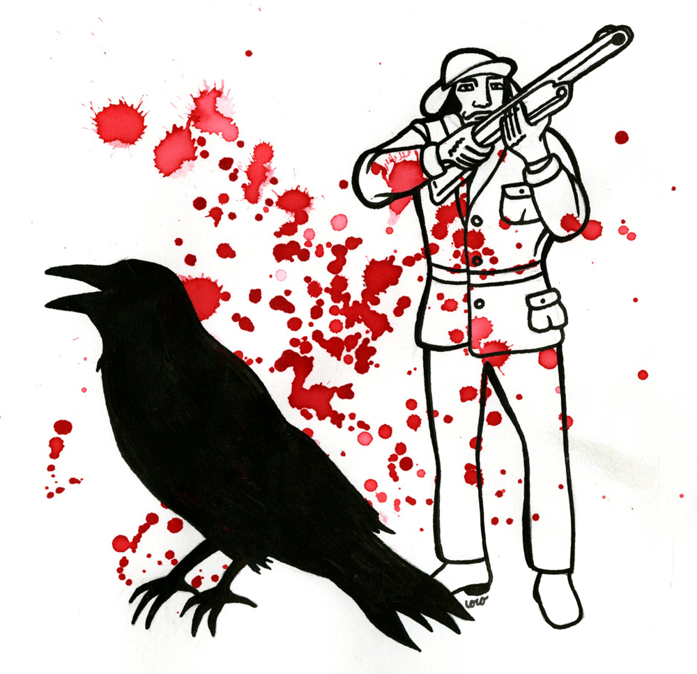 An illustration about the Crowsong